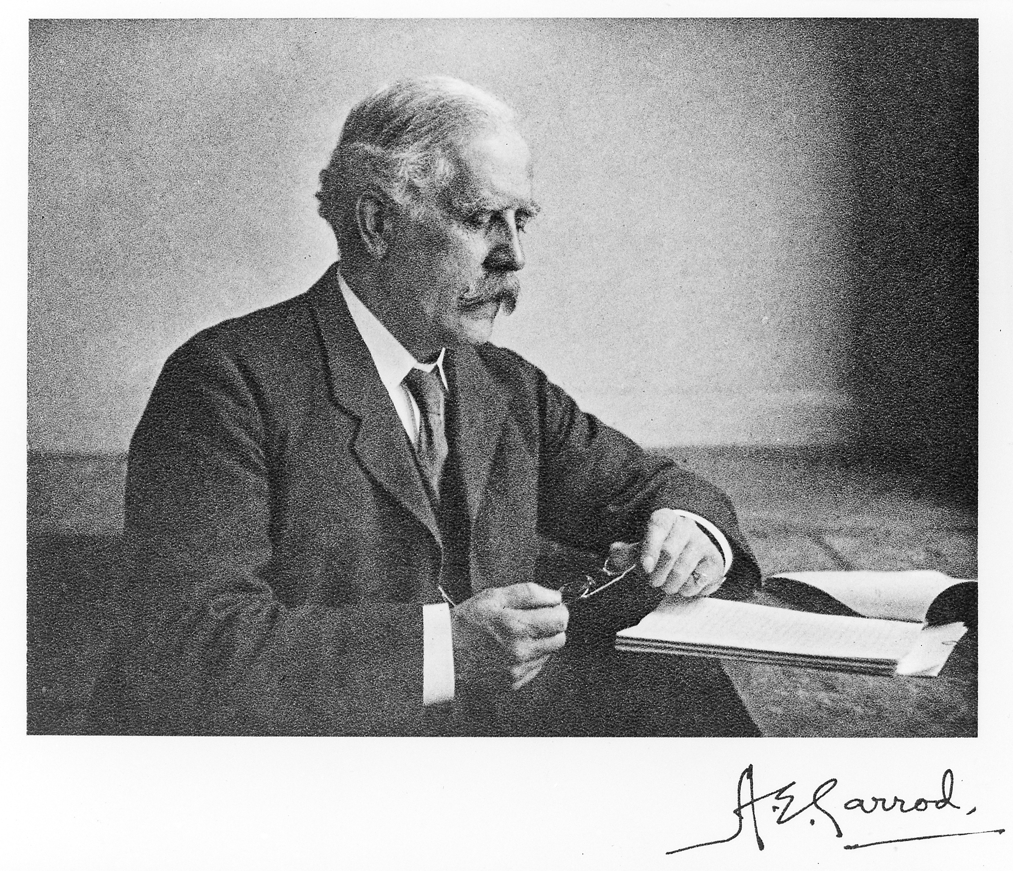 Portrait of Archibald Edward Garrod General Collections Keywords: Archibald Edward Garrod